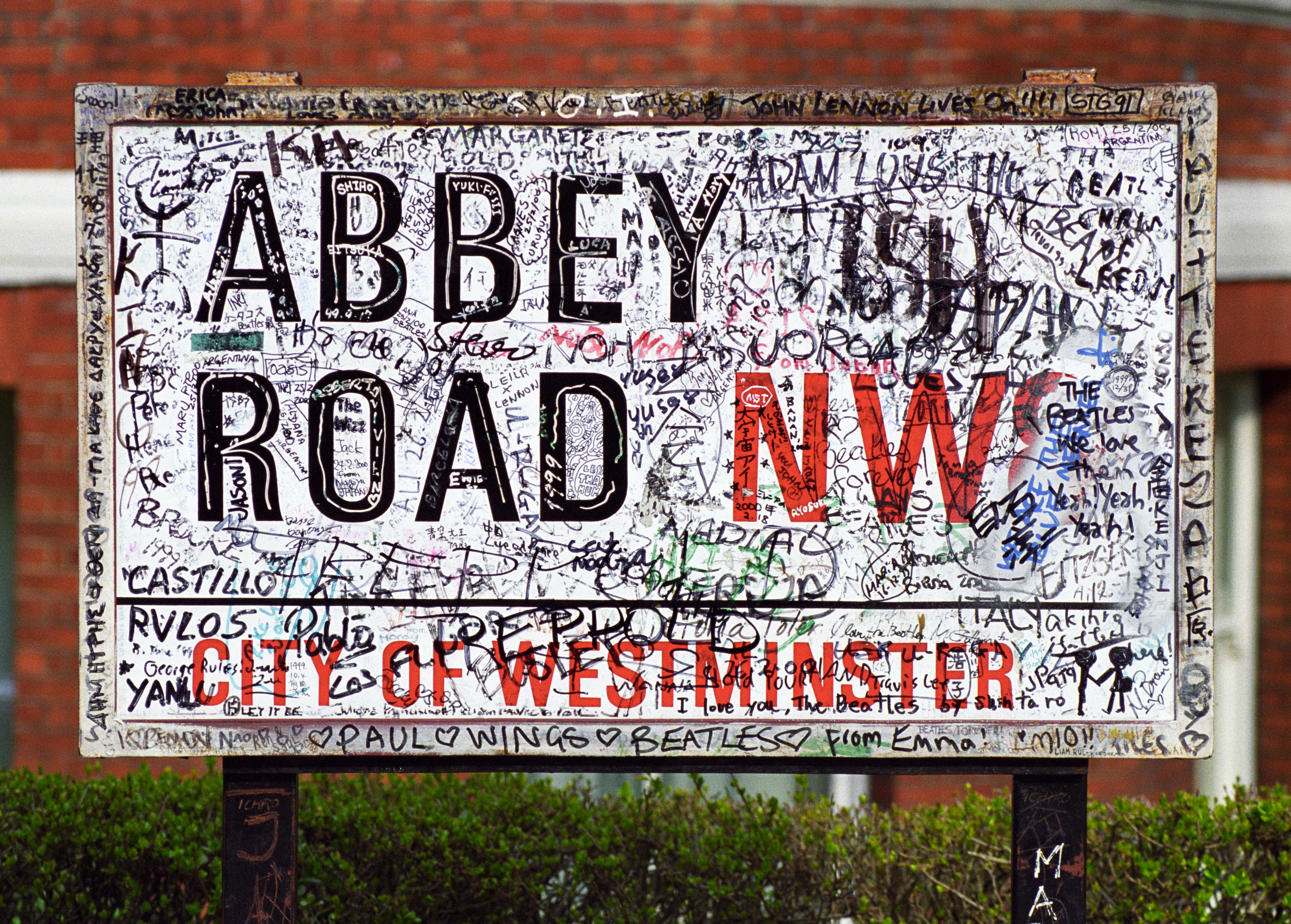 Abbey Road street sign, London